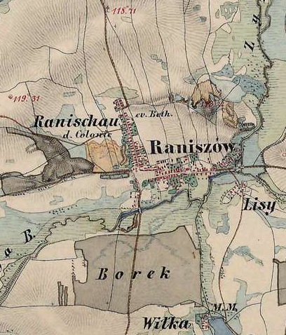 Raniżów on an austrian map from around 1855